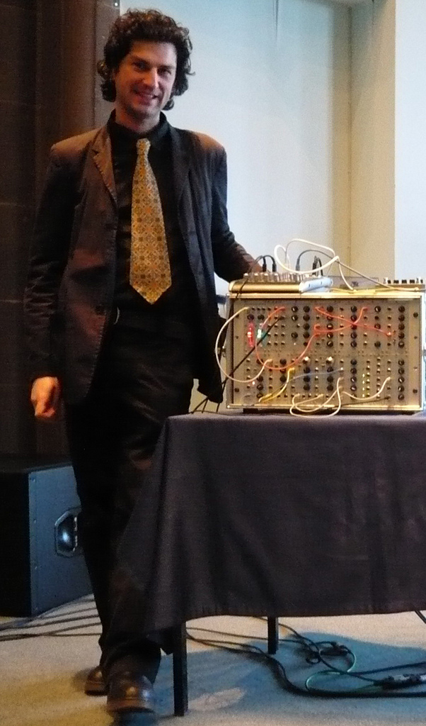 Mark Pilkington performing at A Concert of Music and Psychogeography at Glasgow University, 28th January 2009.